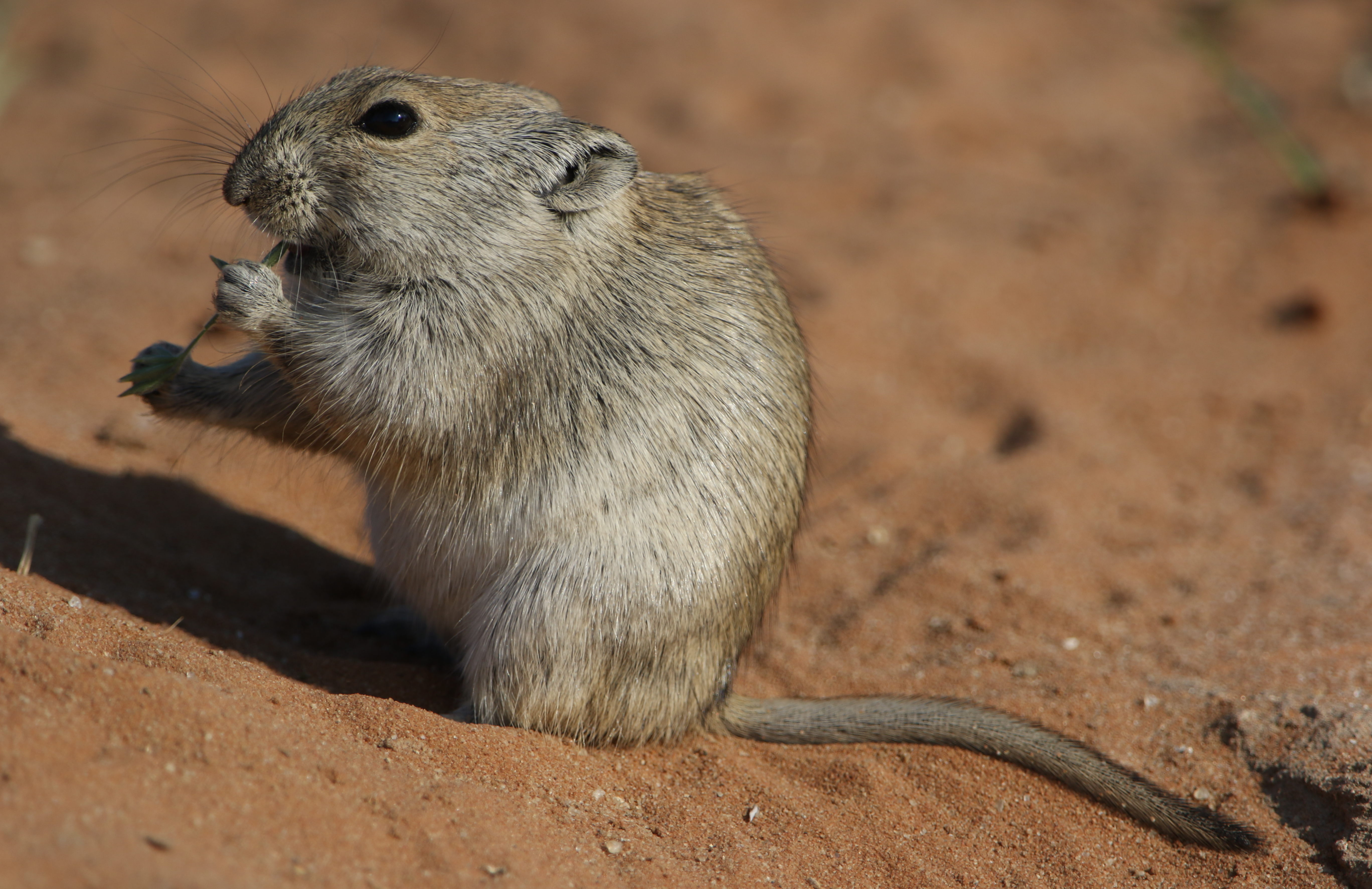 Brants's whistling rat, Parotomys brantsii, at Kgalagadi Transfrontier Park, Northern Cape, South Africa